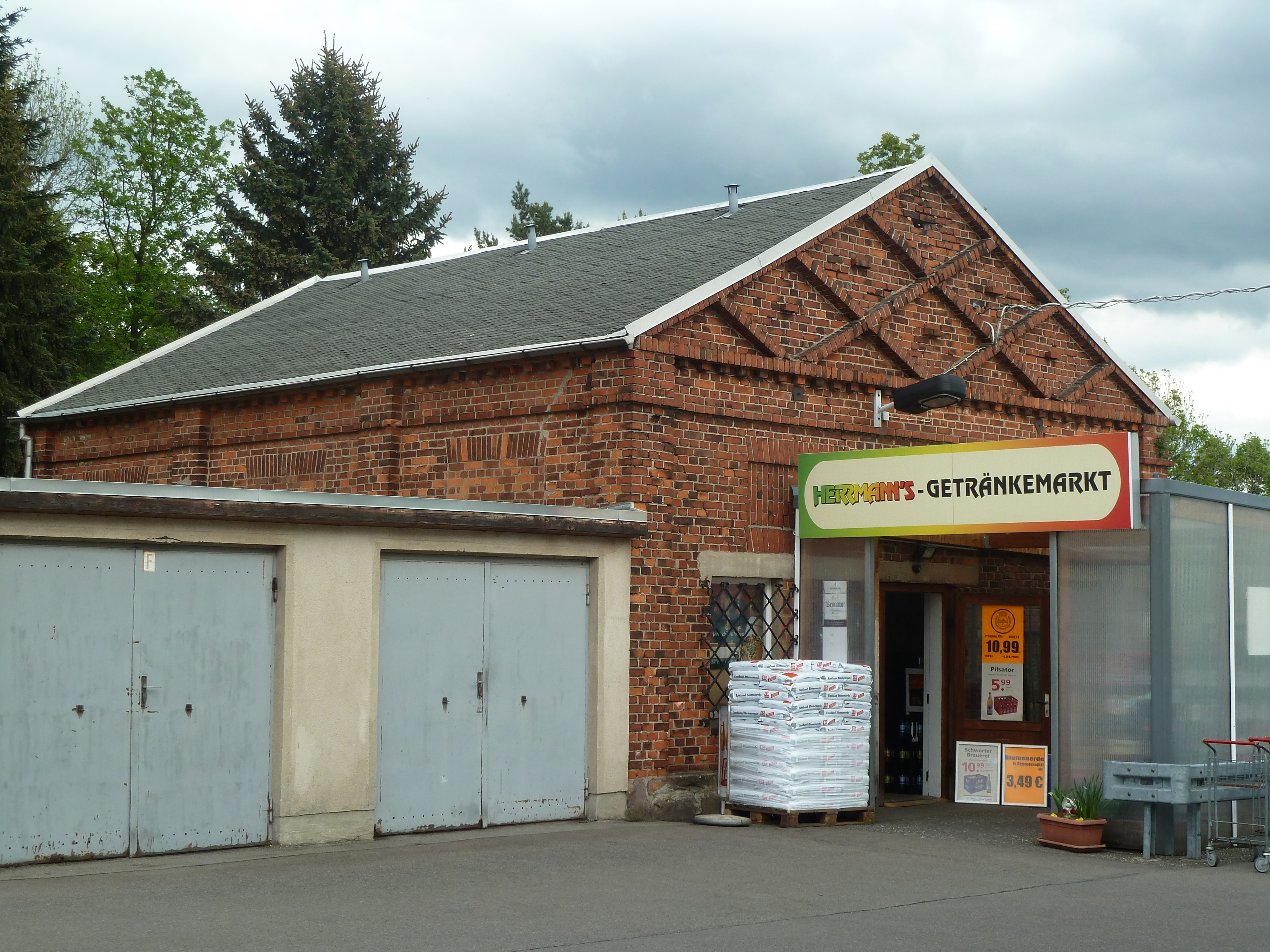 Shed of a colliery, King-Georges´-Mine, Weissig (Freital)